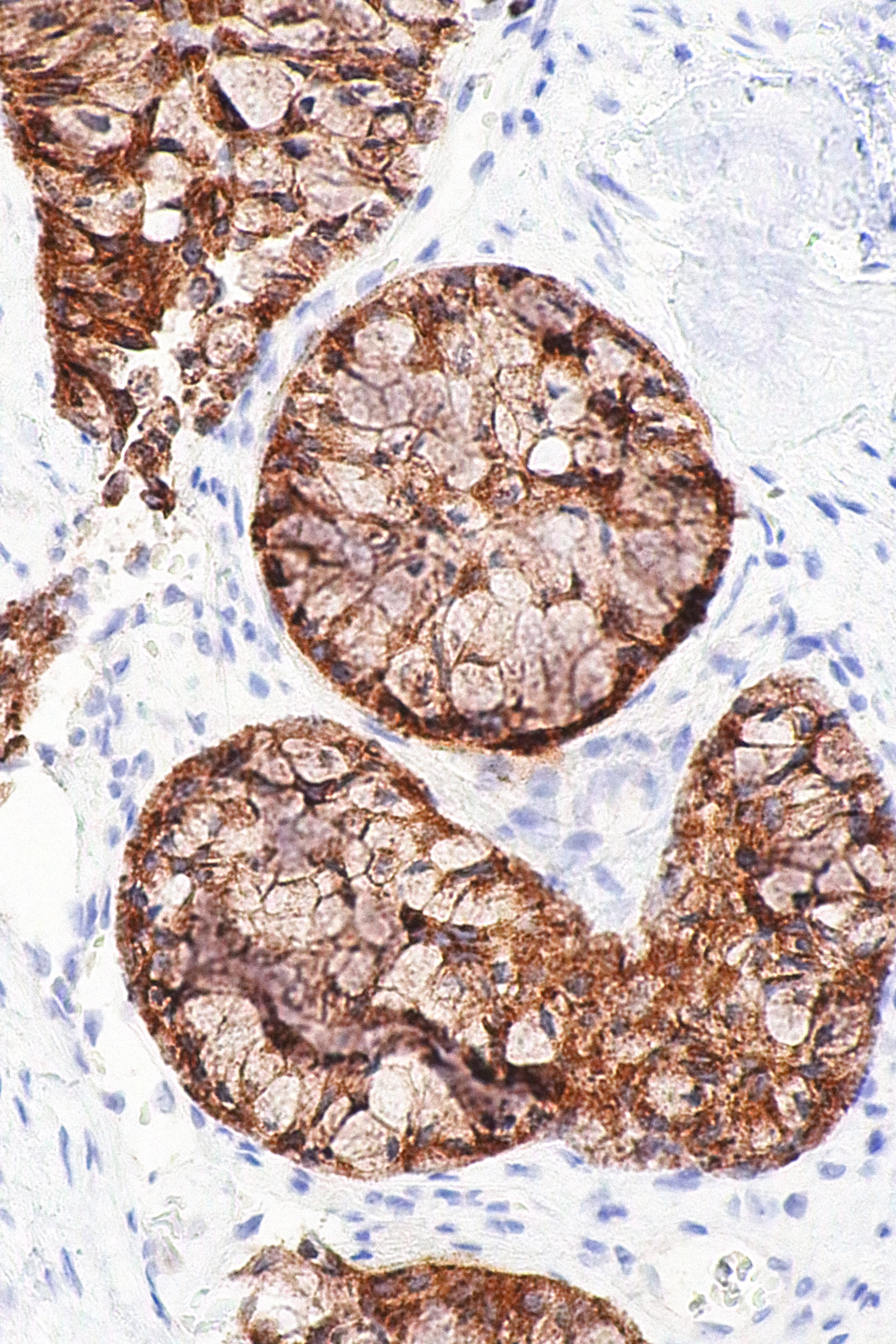 Micrograph showing ALK positive adenocarcinoma of the lung. H&E stain/ALK immunostain. Related images ALK +ve lung adenoca - very low mag. ALK +ve lung adenoca - low mag. ALK +ve lung adenoca - intermed. mag. ALK +ve lung adenoca - high mag. ALK +ve lung adenoca - high mag. ALK +ve lung adenoca - very high mag. ALK +ve lung adenoca - very low mag. ALK +ve lung adenoca - low mag. ALK +ve lung adenoca - intermed. mag. ALK +ve lung adenoca - high mag. ALK +ve lung adenoca - high mag. ALK +ve lung adenoca - very high mag. ALK +ve lung adenoca - very high mag.